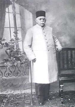 Abdol Hossein Mirza Farmanfarma